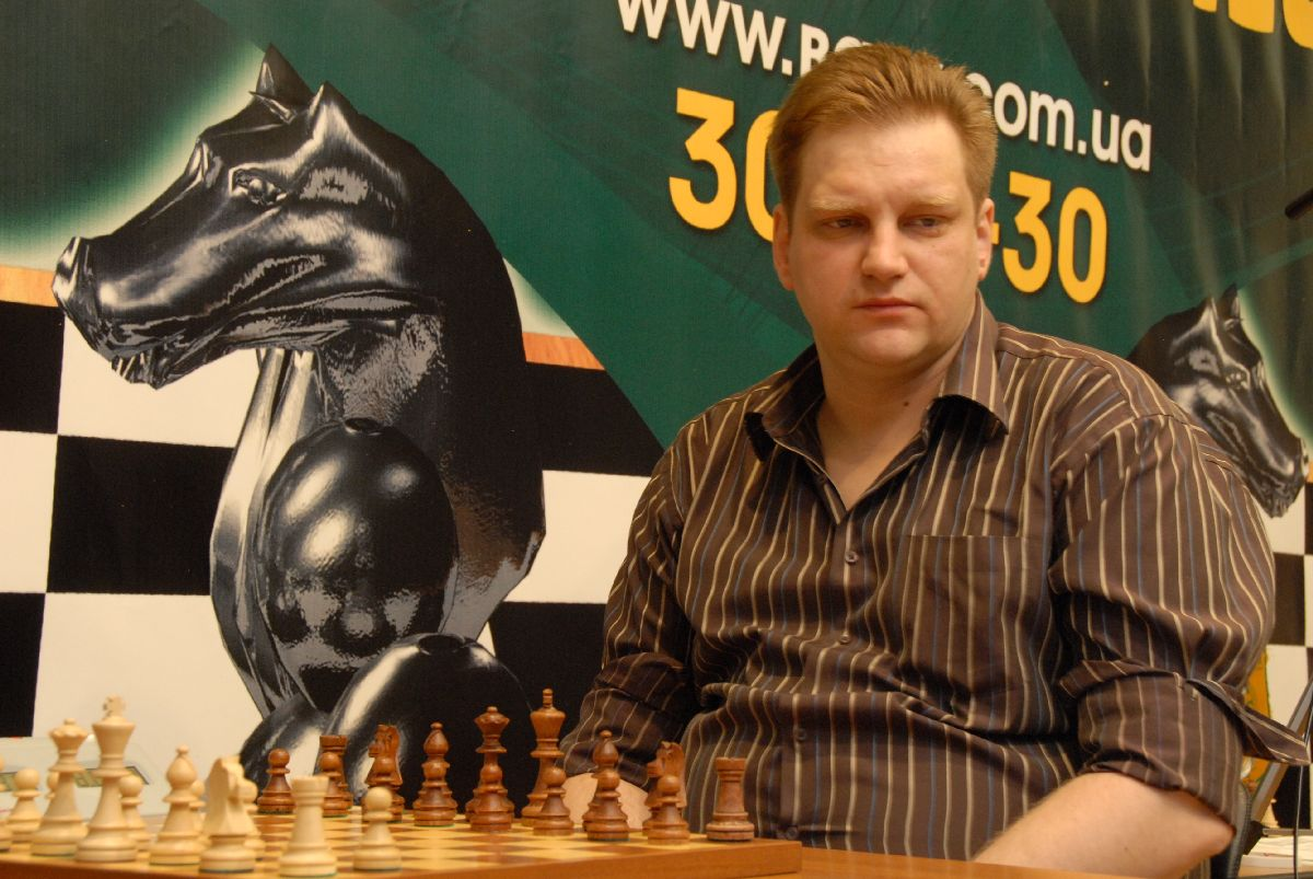 © Photo by the official tournament photographer, Boris Bukhman